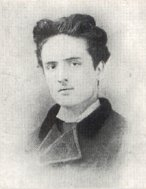 Alberto Viriglio (1851-1913), poet from Piedmont (Italy)